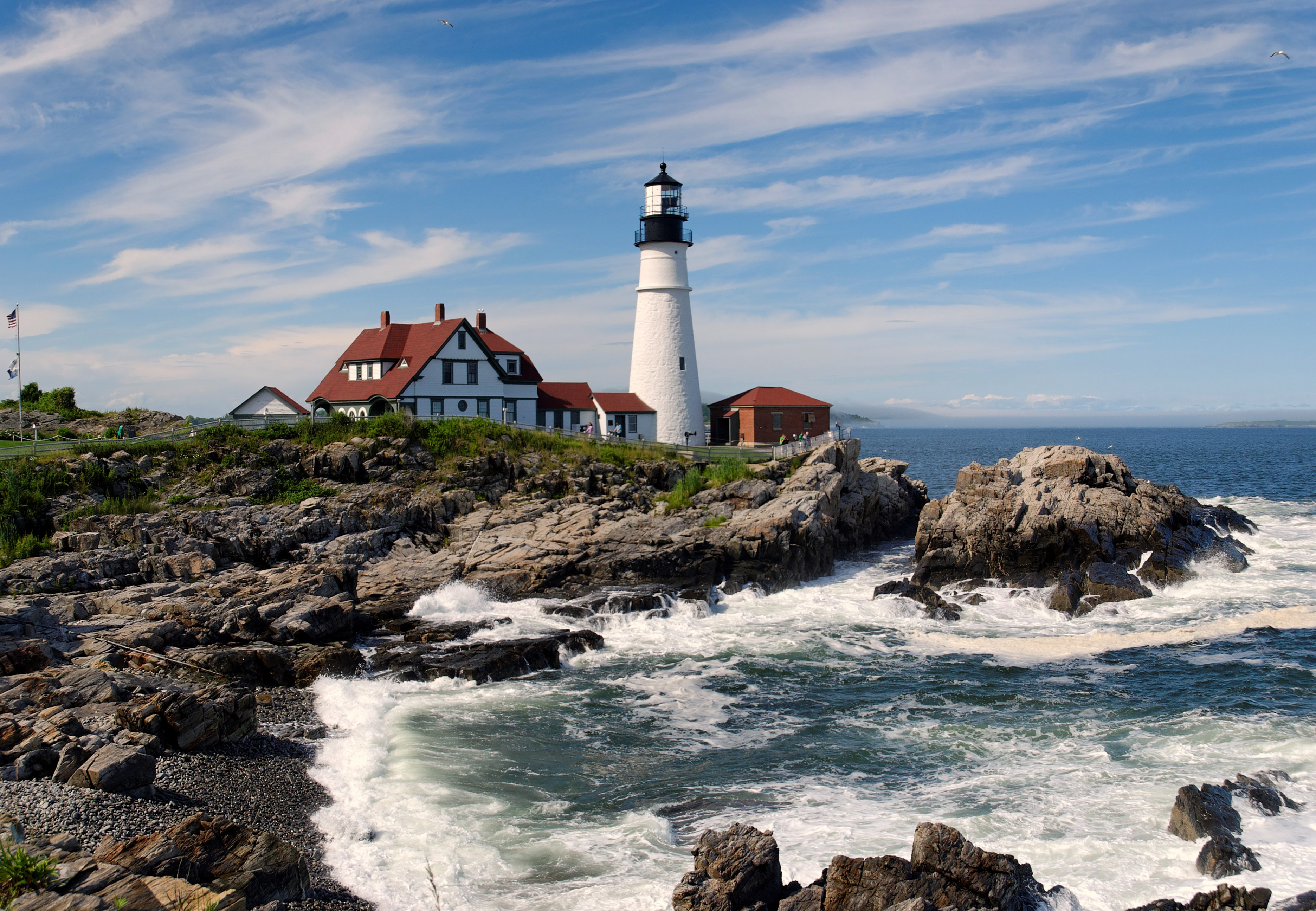 Portland Head Light Station, Cape Elizabeth, Maine, U.S.A.